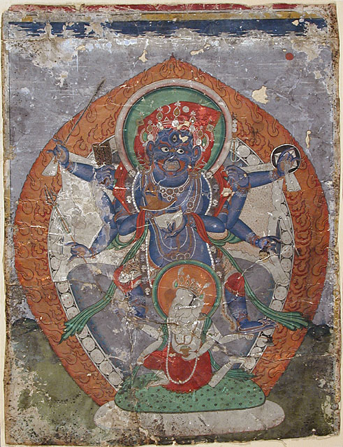 Vighnantaka, Painting; Watercolor, Opaque watercolor on paper, 13 x 10 in. (33.02 x 25.4 cm) Made in: Nepal